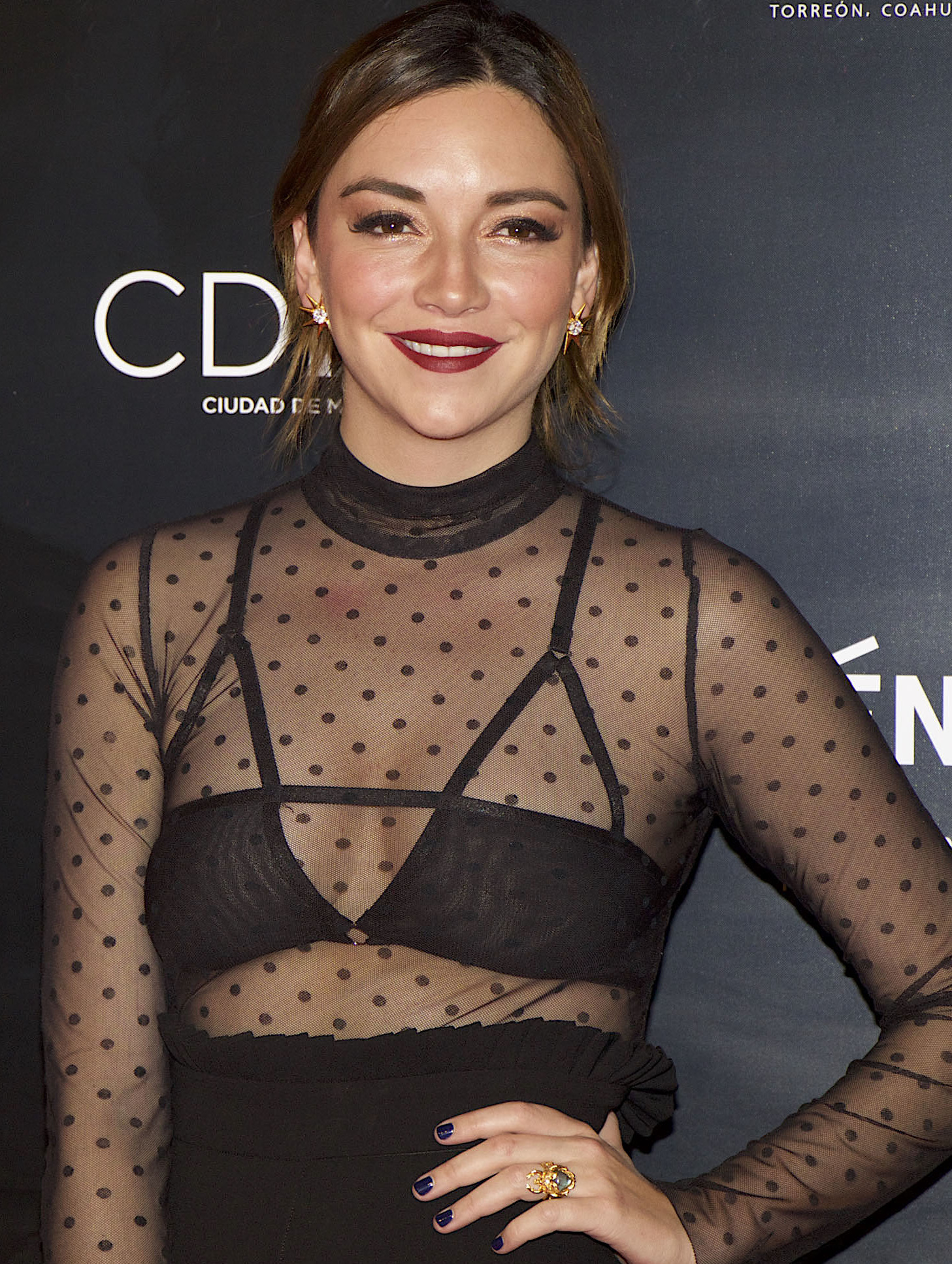 Regina Blandón in 2018